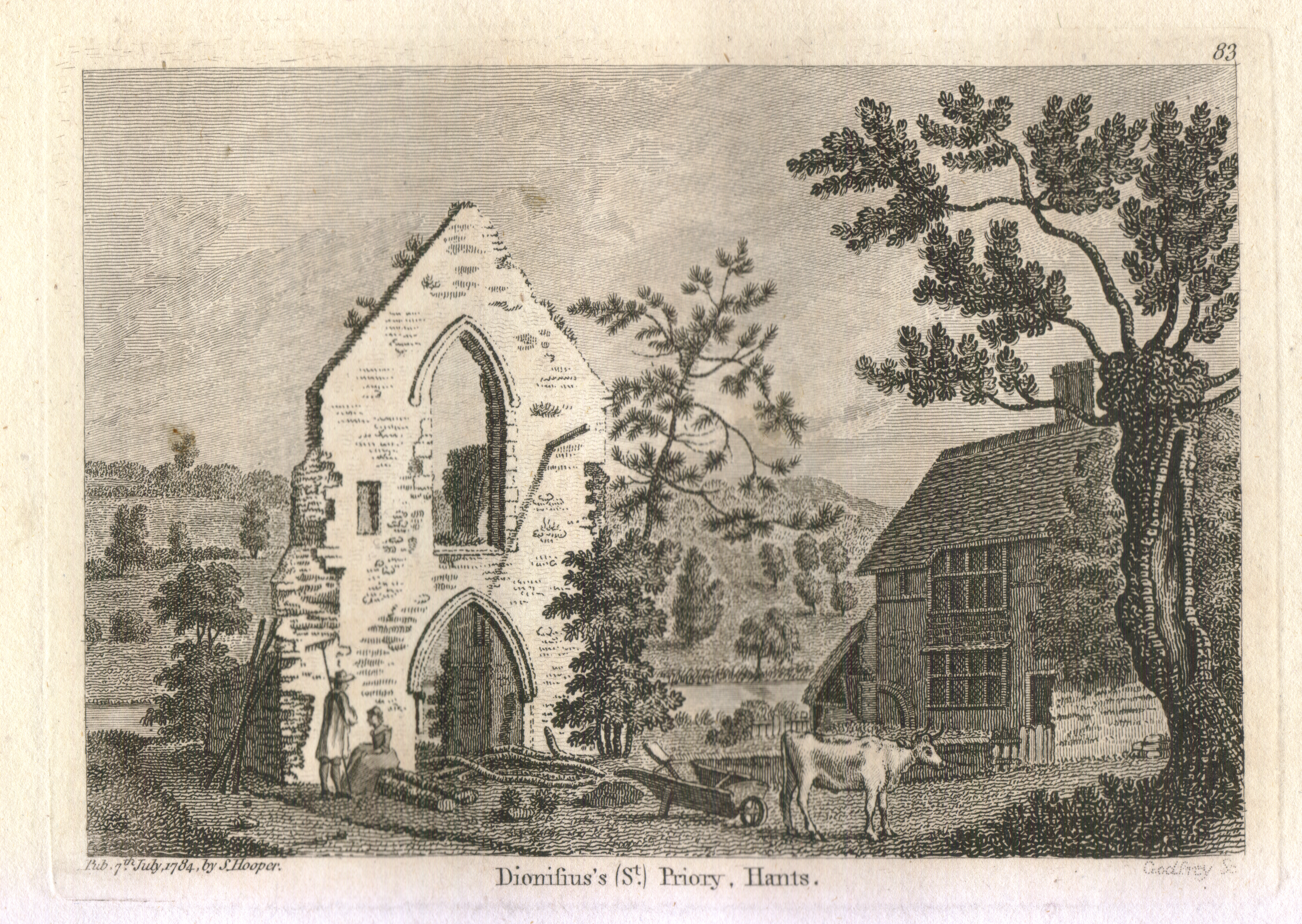 The west front of the church of St Denys Priory in 1784.